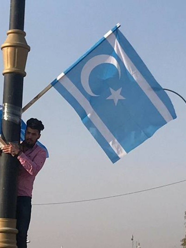 Iraqi Turkmen man climbs a pole in Kirkuk for a photo with the hanging flag.